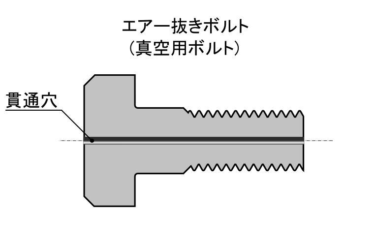 Screw (bolt) 24A-J